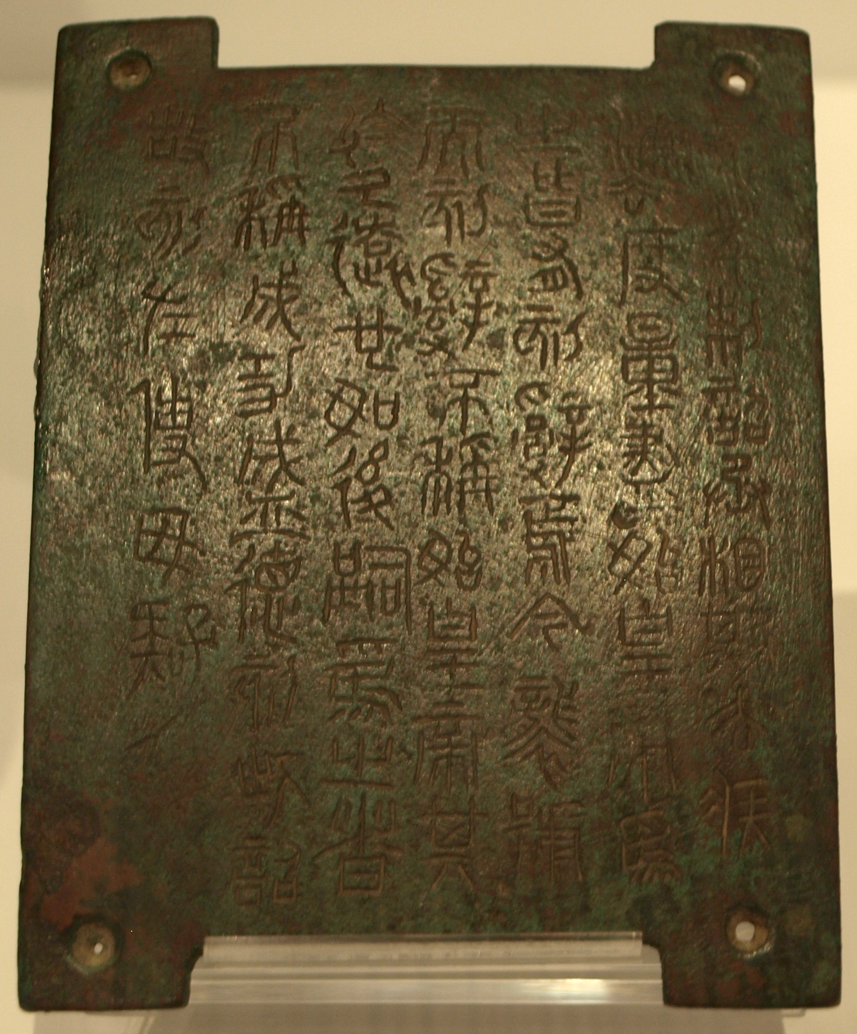 Small bronze plaque containing an edict from the second emperor of the Qin dynasty. 209 BC. Cat # 931.13.195 Bishop C. White Collection. From the Joey and Toby Tanenbaum Gallery of China at the Royal Ontario Museum.